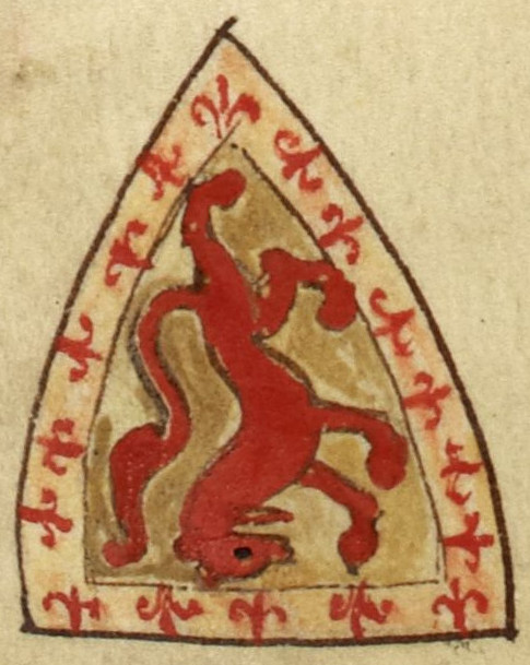 An excerpt from folio 146v of Royal MS 14 C VII (Historia Anglorum). The coat of arms is that of Alexander II, King of Scotland. The inverted shield represents the king's death in 1249.